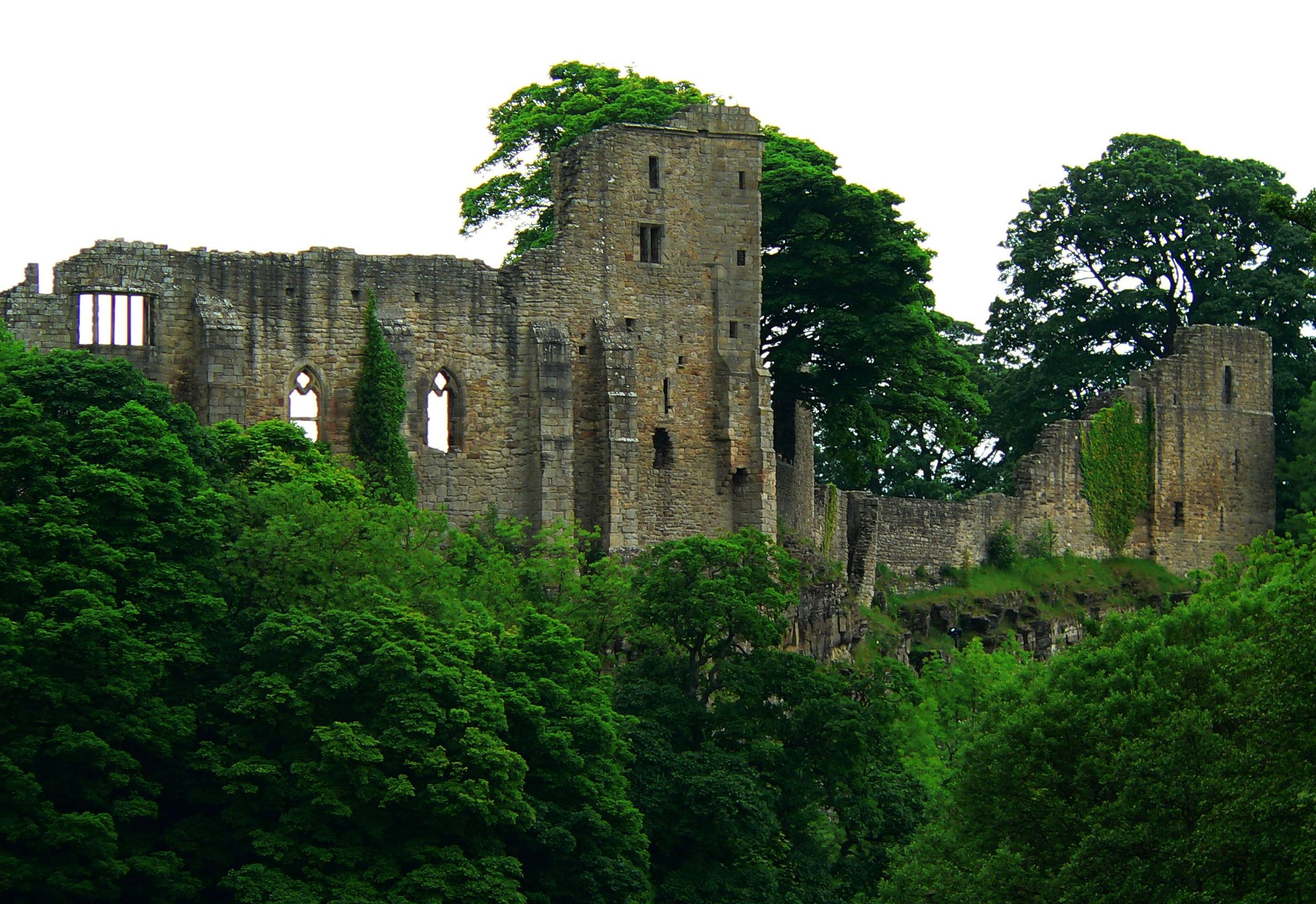 The castle at Barnard Castle - by Francis Hannaway